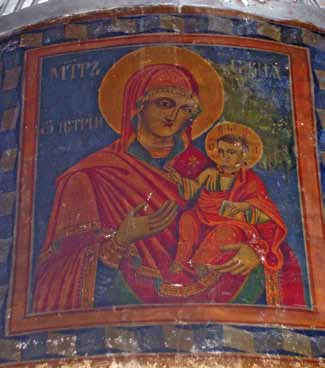 Saint Mary Hodegitria in Dormition of Mary Chich in Rupite